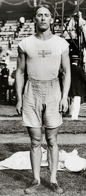 Sport, 1912 Olympic Games, Stockholm, Sweden, Athletics, Mens Decathlon, Charles Lomberg.